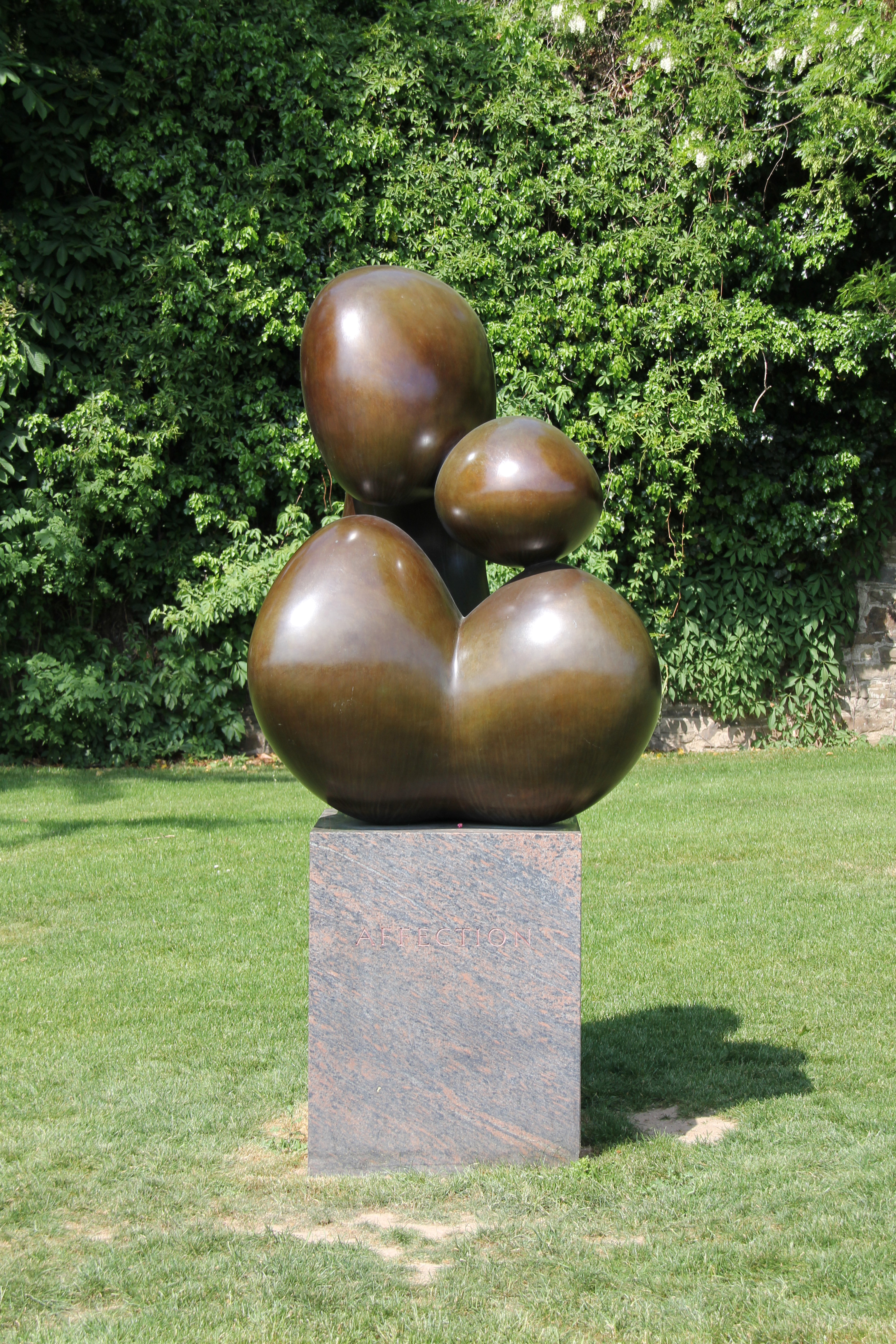 Rhine park in Koblenz